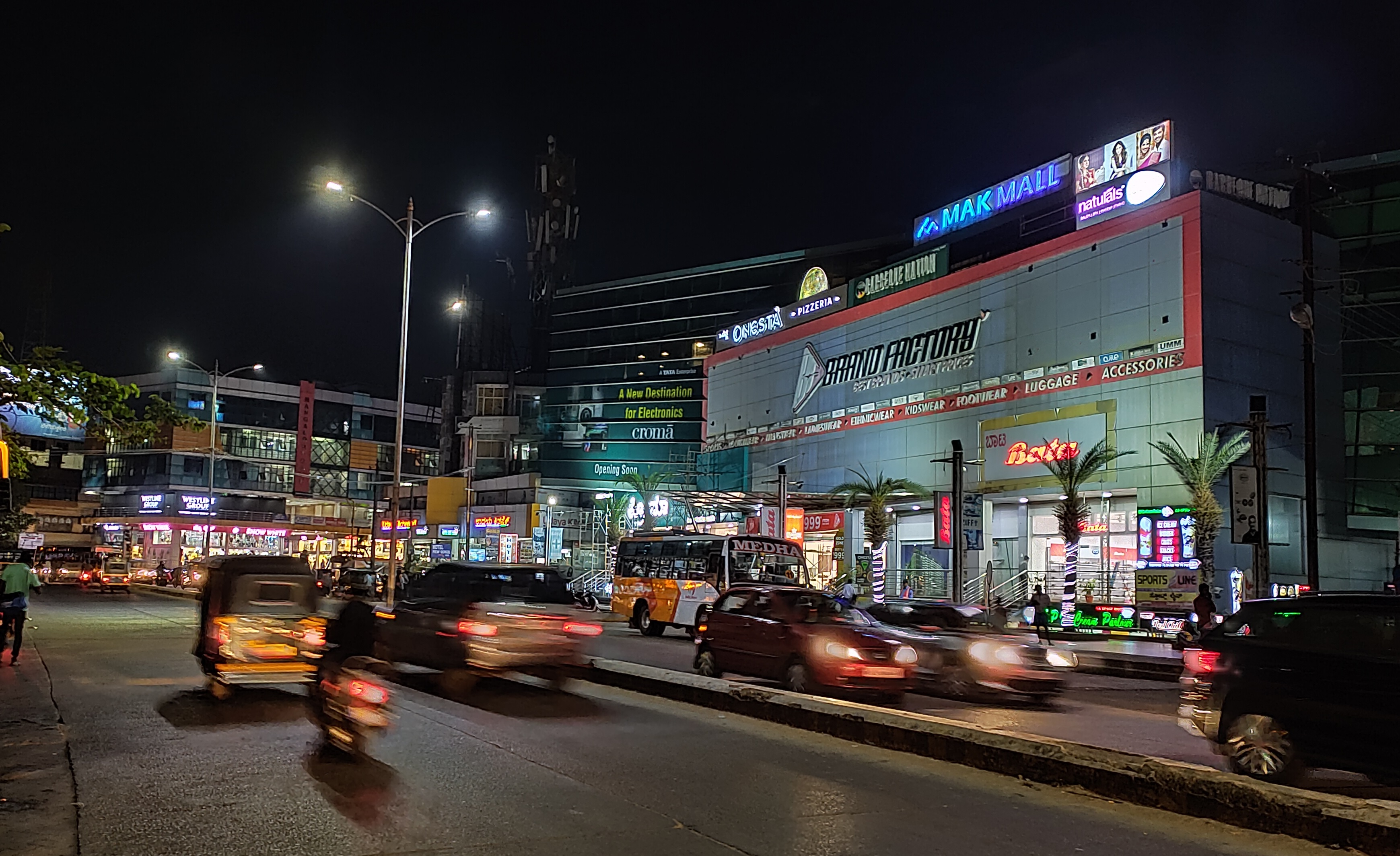 A view of Mak Mall at night, Kankanady